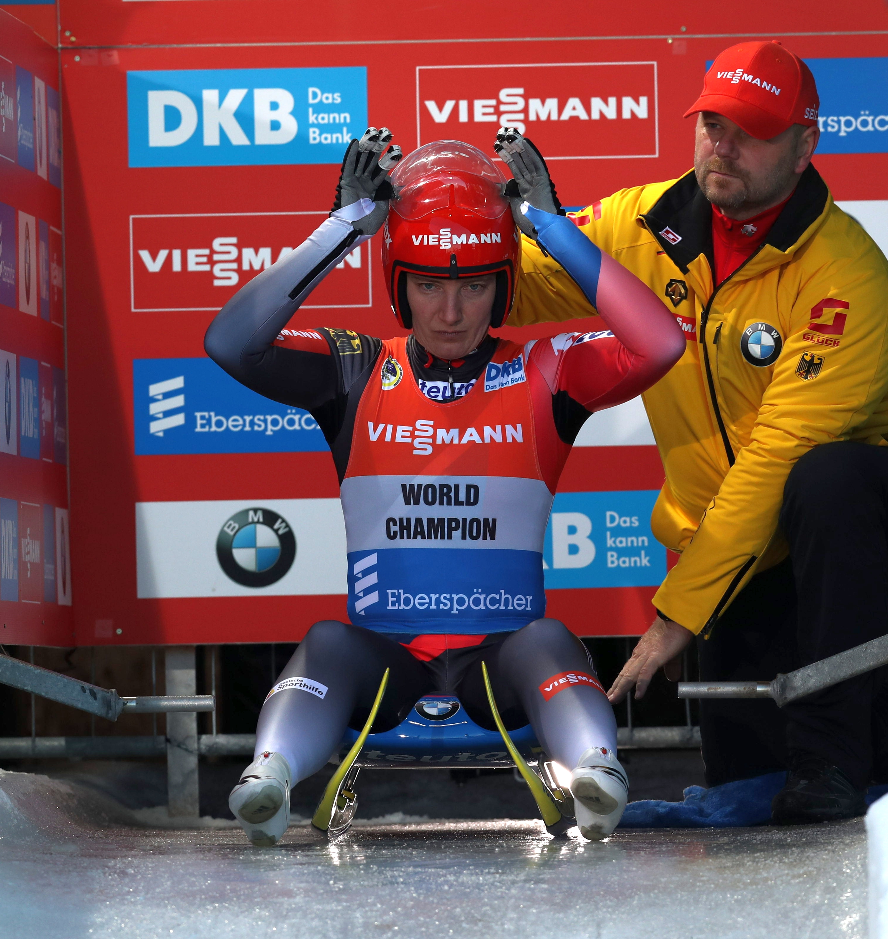 Luge World Cup Women 2017/18 in Altenberg: Tatjana Hüfner